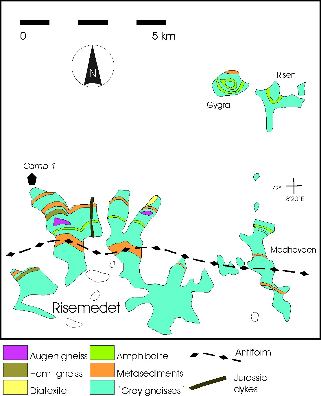 Geological map of Risemedet, eastern Gjelsvik Mountains, Antarctica